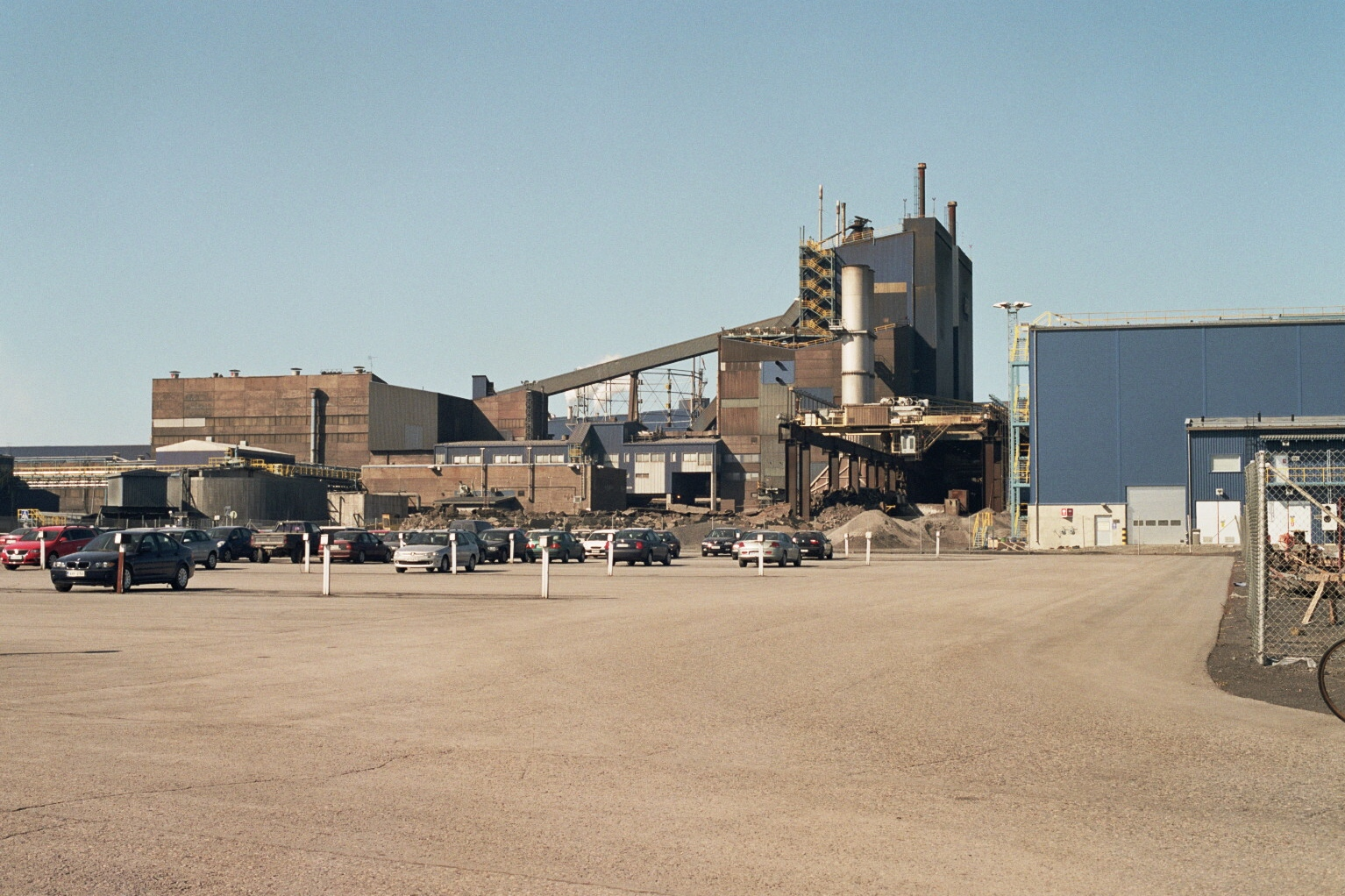 A part of the Outokumpu factory in the Röyttä area of the city of Tornio in Finland. Prominently featured in the photo is probably the ferrochrome plant.